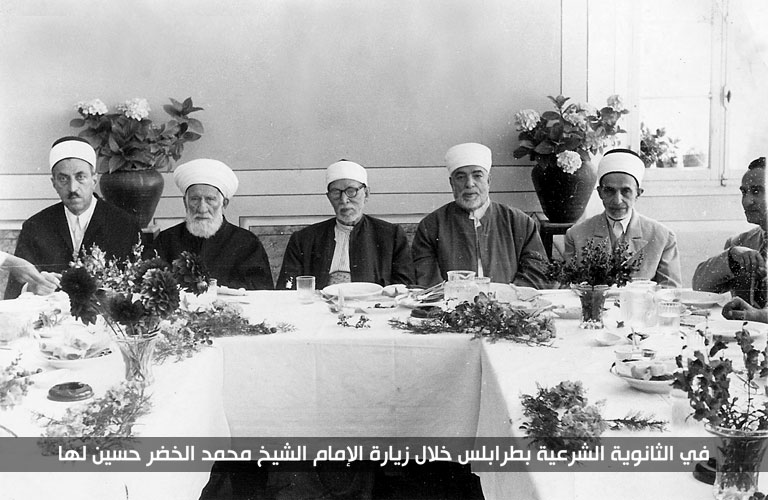 Elkhodhr_Hassin_and_Ettounsi_in_Tripoli